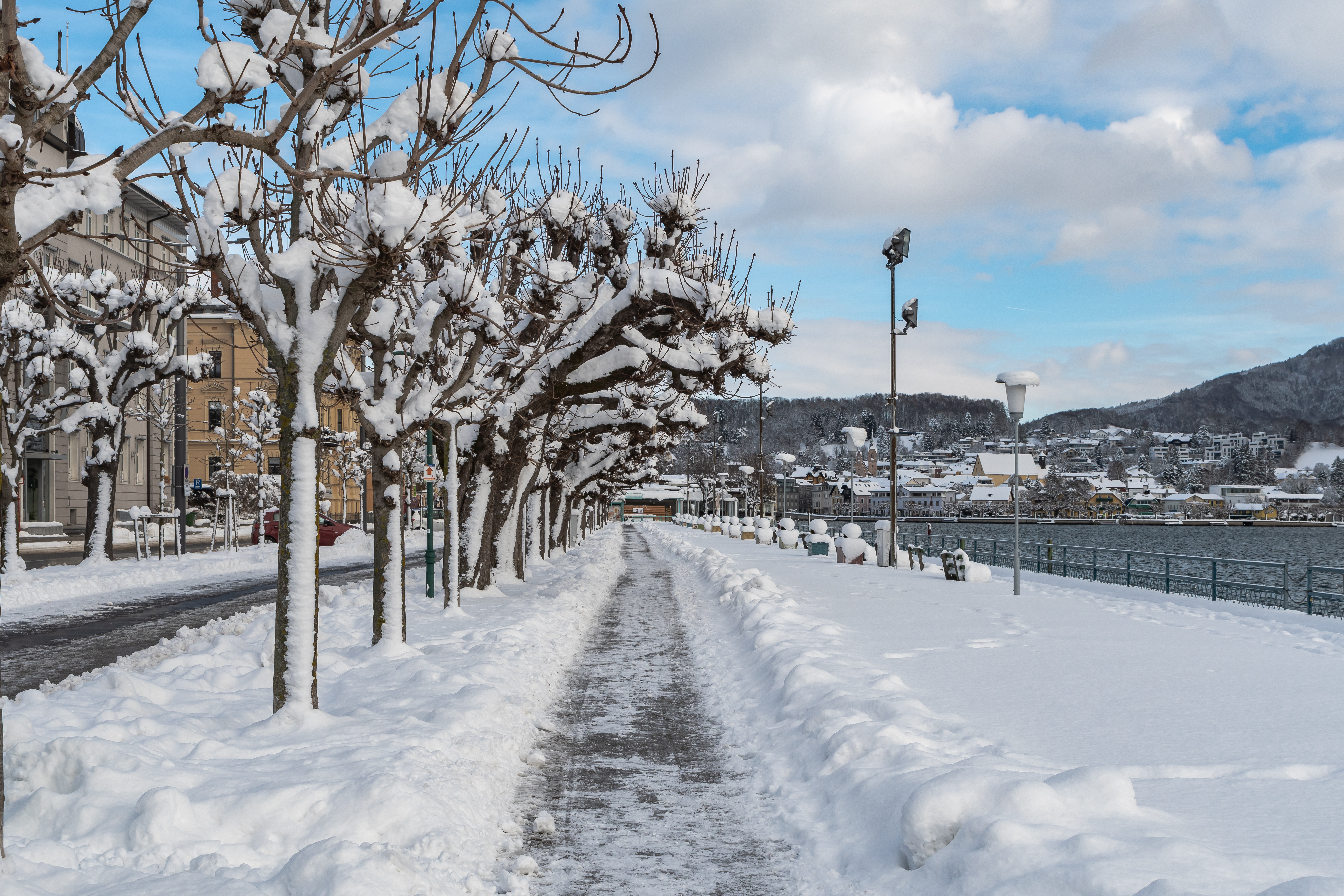 The Esplanade in Gmunden (Upper Austria) goes from main square to the Yacht Club and has a length of approx. 500 m.